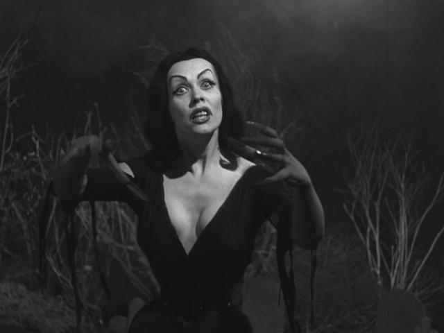 Film: Plan 9 from Outer Space (1959) Director: Ed Wood, Jr. Actor Portrayed: Maila Nurmi Licensing The original 1959 version of this film is public domain, although there may be a copyright on the musical score